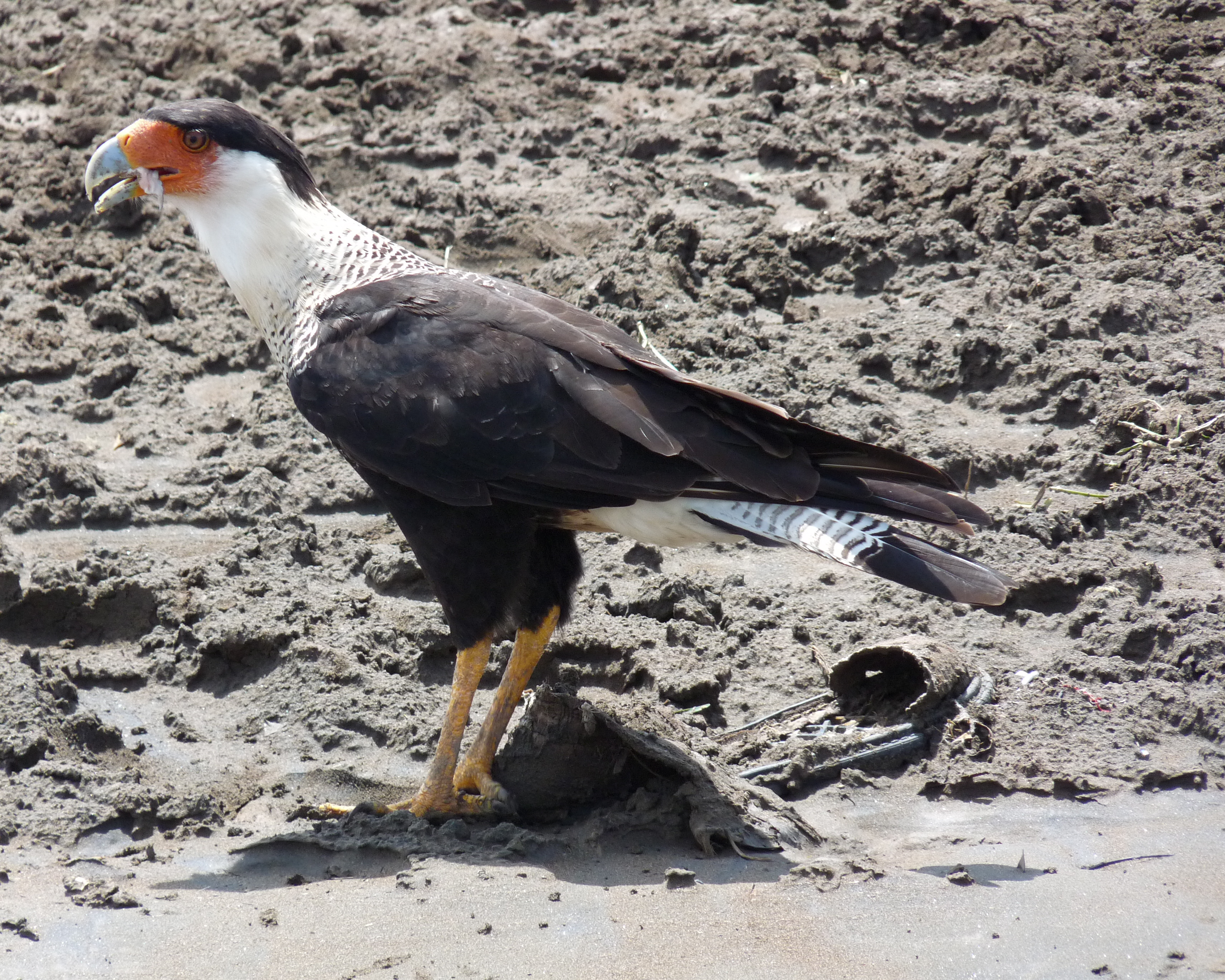 A Northern Caracara in Esparza, Puntarenas, Costa Rica.